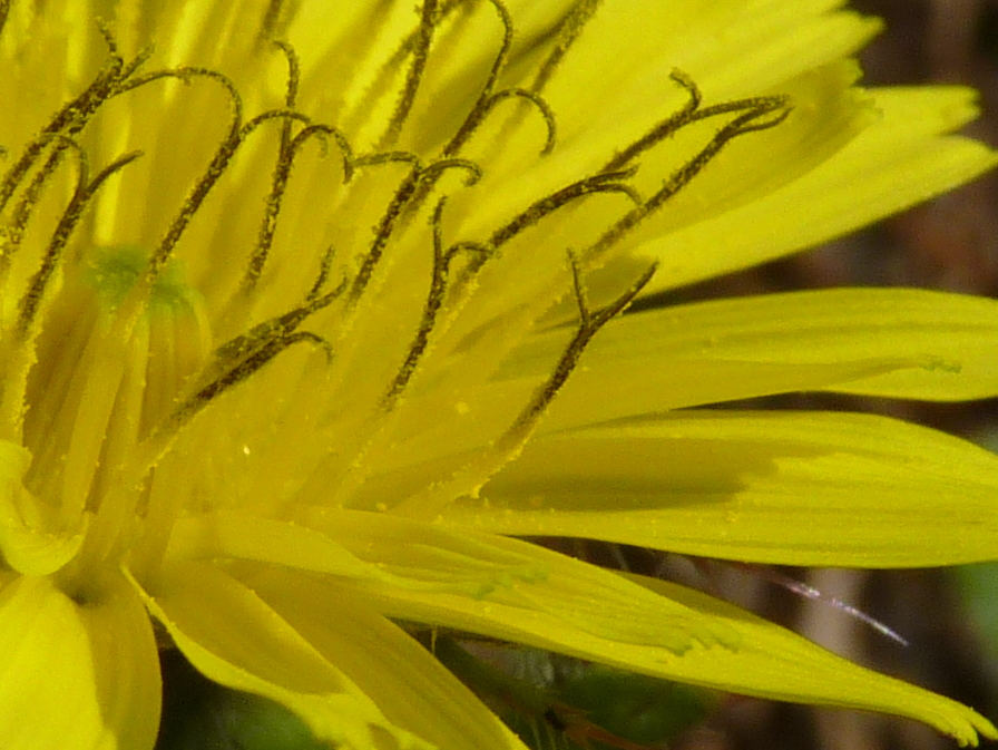 Part of a flowerhead of Picris echioides (Asteraceae, Cichorieae) showing many individual ray-florets, each with a style ending in two divergent long stigmas. The five anthers in each floret are connected to eachother, forming a narrow tube. While the style grows through this tube, it hoovers up pollen grains on its hairs. From there visiting insects are dusted with pollen which they wipe off on the stigmas of the next flower head they visit. As the florets mature, the stigmas curl back untill eventually coming into contact with the style, thus ensuring self-pollination if cross-pollination did not succeed.